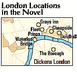 The Pickwick Papers: London locations in the novel.